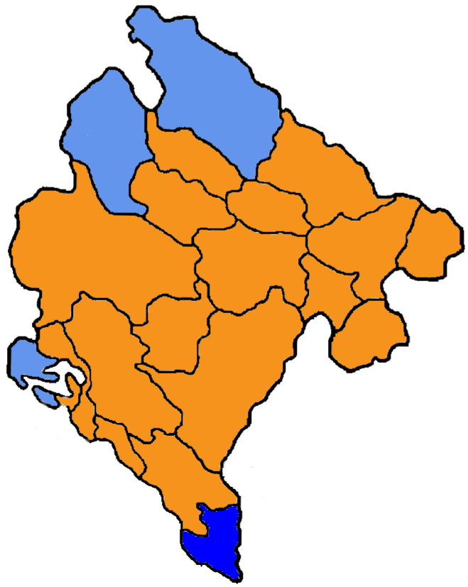 Results of Montenegro, municipal elections, 2008-10 by municipality.